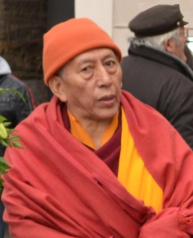 Professor Venerable Samdhong Rinpoche – Lobsang Tenzin (As Special Envoy of Dalai Lama, Prague 2011)